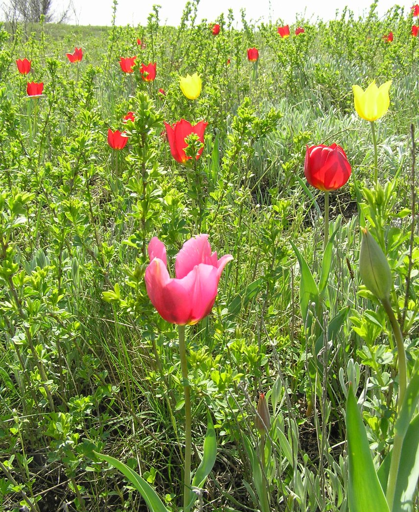 Tulipa suaveolens (= Tulipa schrenkii) in natural steppe of Ukraine (Luhansk Oblast). File modified from (Тюльпан Шренка у балці Плоскій.jpg) posted by @Dzhos Anatoliy